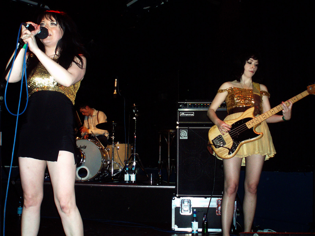 At Pressure Point in Brighton, 6/11/07.